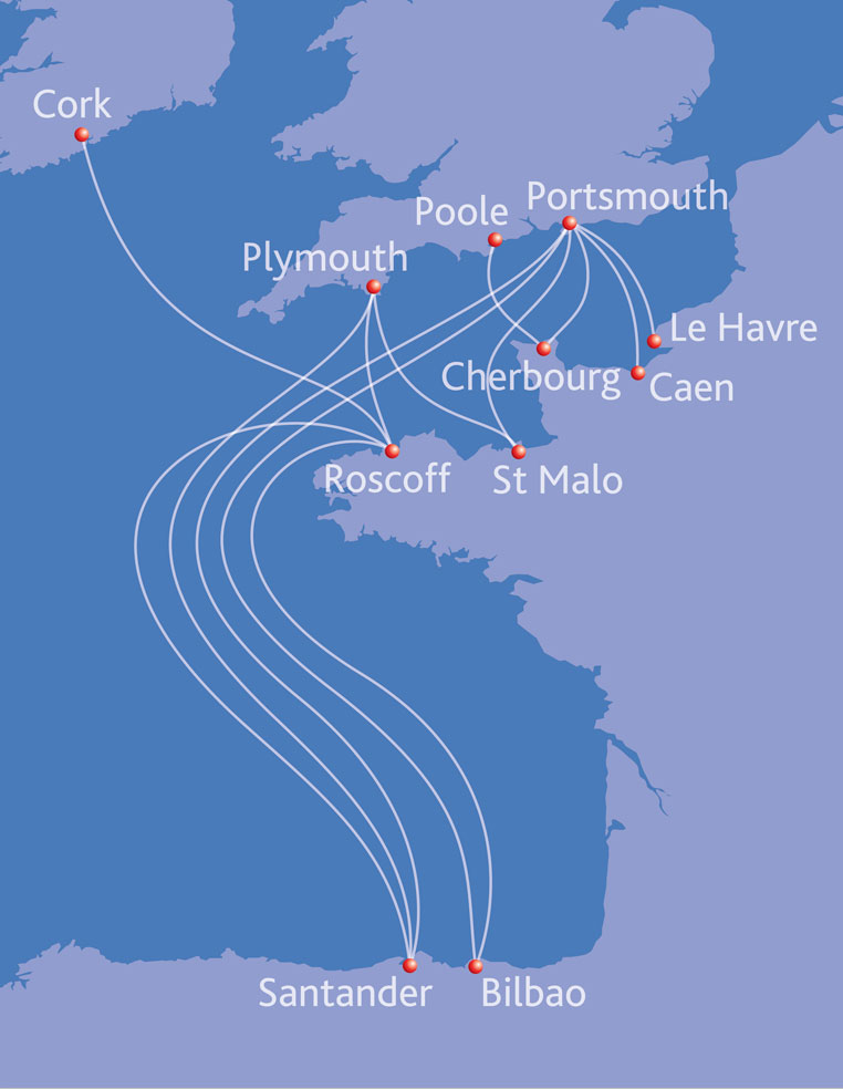 Brittany Ferries routes map